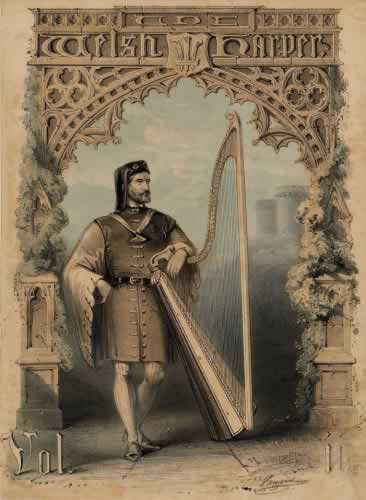 Colour frontispiece of vol. I of The Welsh Harper by John Parry (1848), featuring an imagininary portrait of medieval Welsh-language poet Dafydd ap Gwilym (14th century).